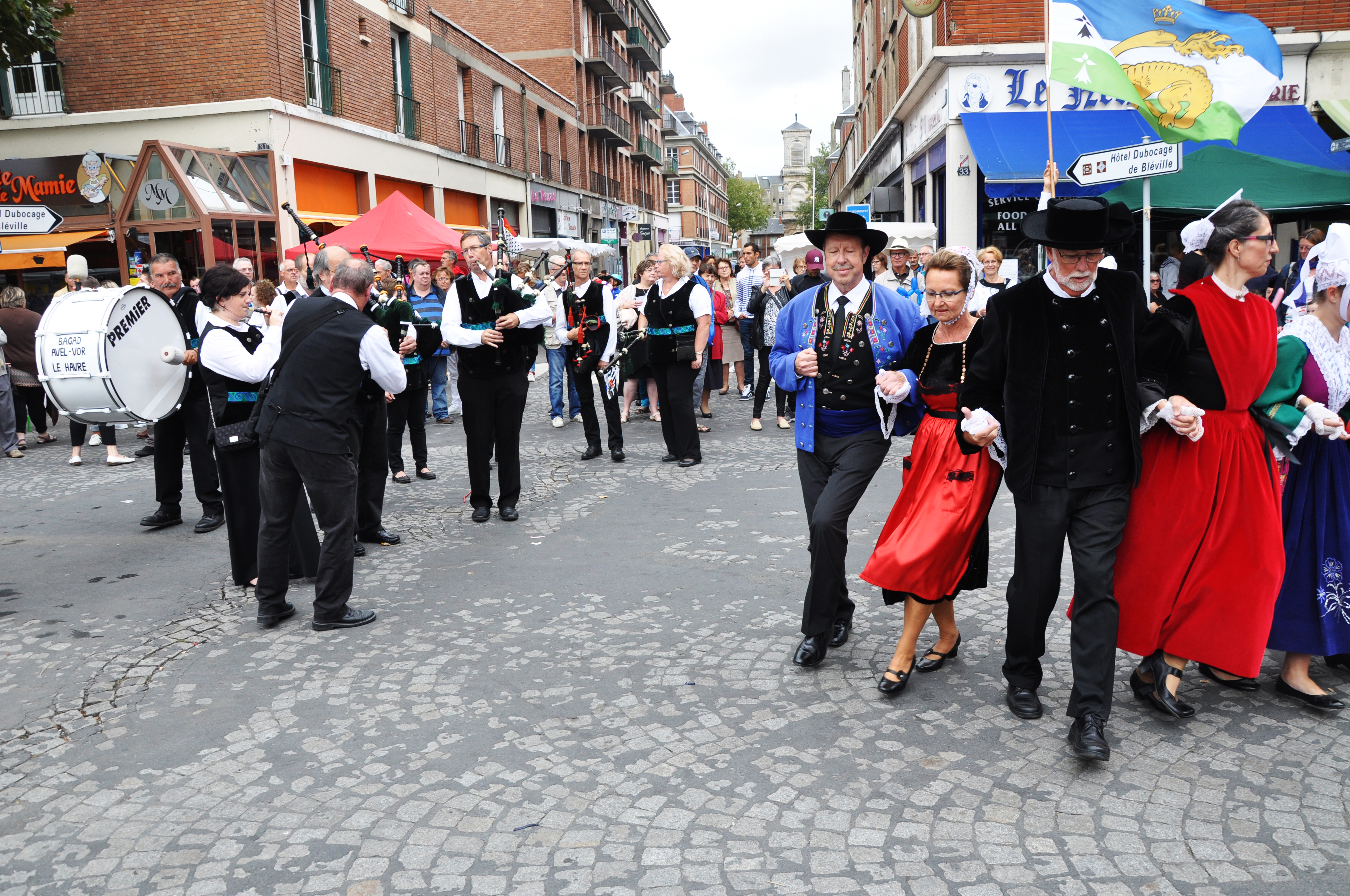 Le Havre (France, Normandy)